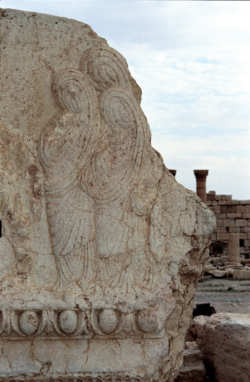 Palmyra (Syria), Temple of Baal (17-32). Relief with a group of veiled Arab women.